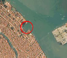 Highlight of a specific zone (Sacca della Misericordia) from a broader original aerial view